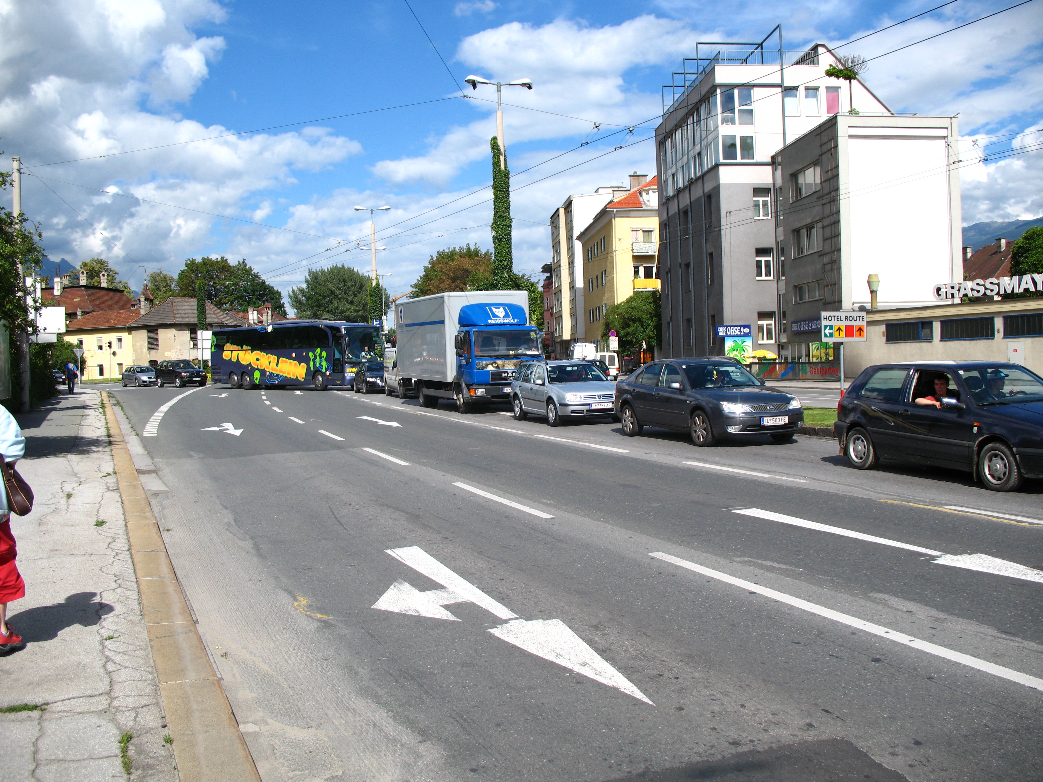 Olympic Street at Southern Street, Innsbruck, Austria